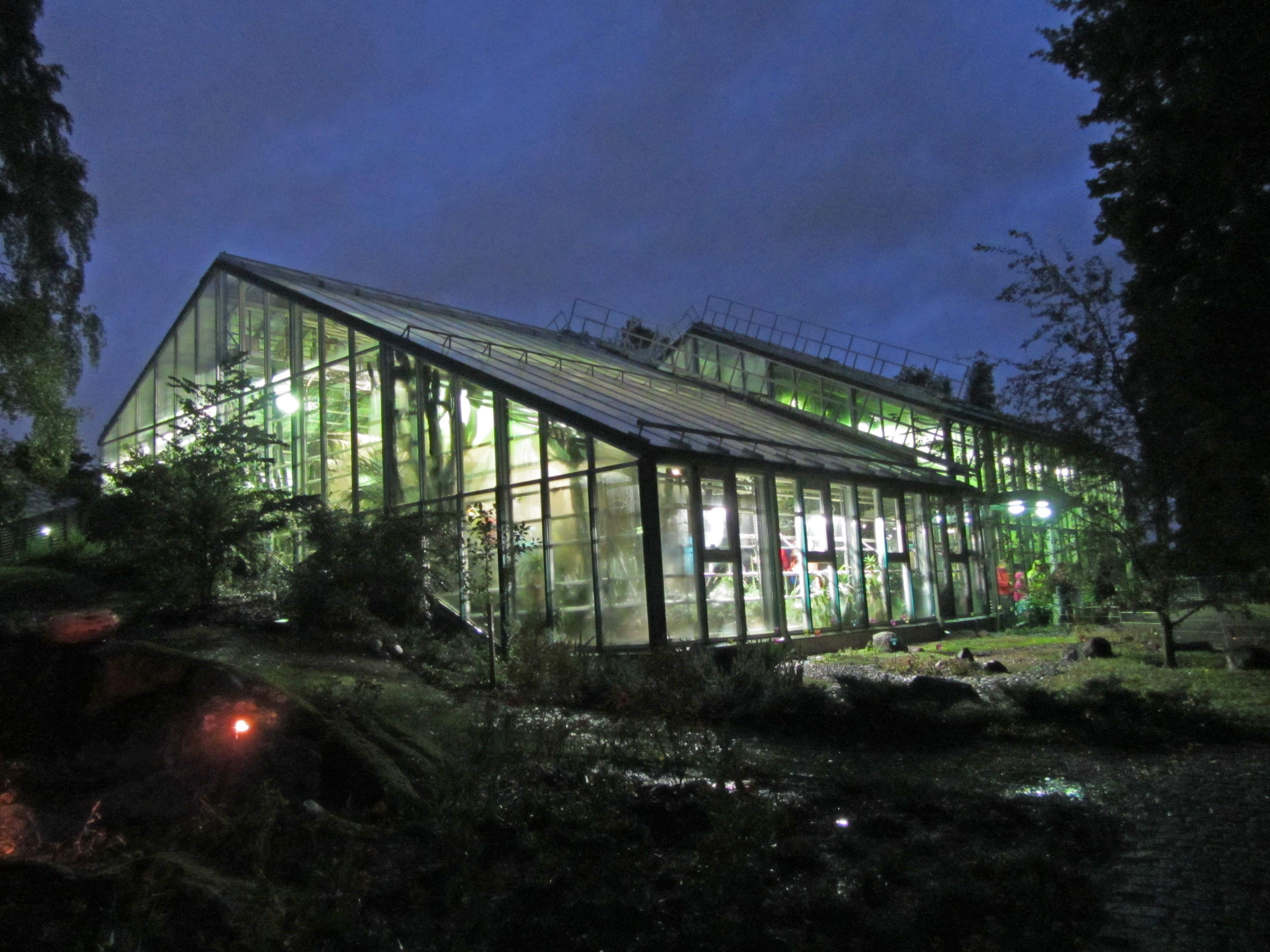 Amazonia in Korkeasaari Zoo